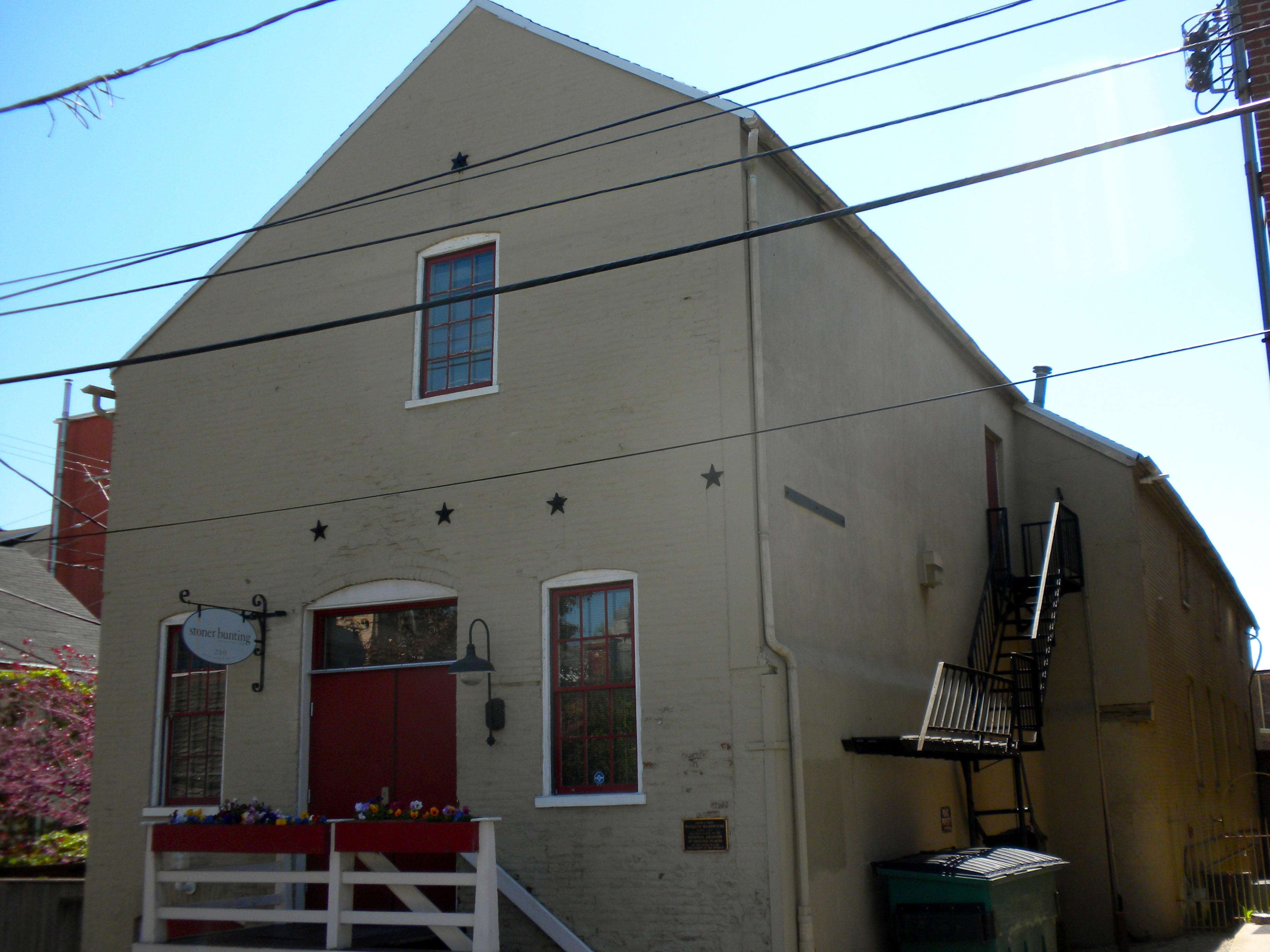 Jacob L. Frey Tobacco Warehouse on the NRHP since September 21, 1990. At 210 West Grant Street, just west of the Central Business District in Lancaster (city), Pennsylvania